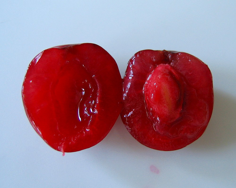 Cherry fruit, cross section (Prunus cerasus), cultivated in Poland.